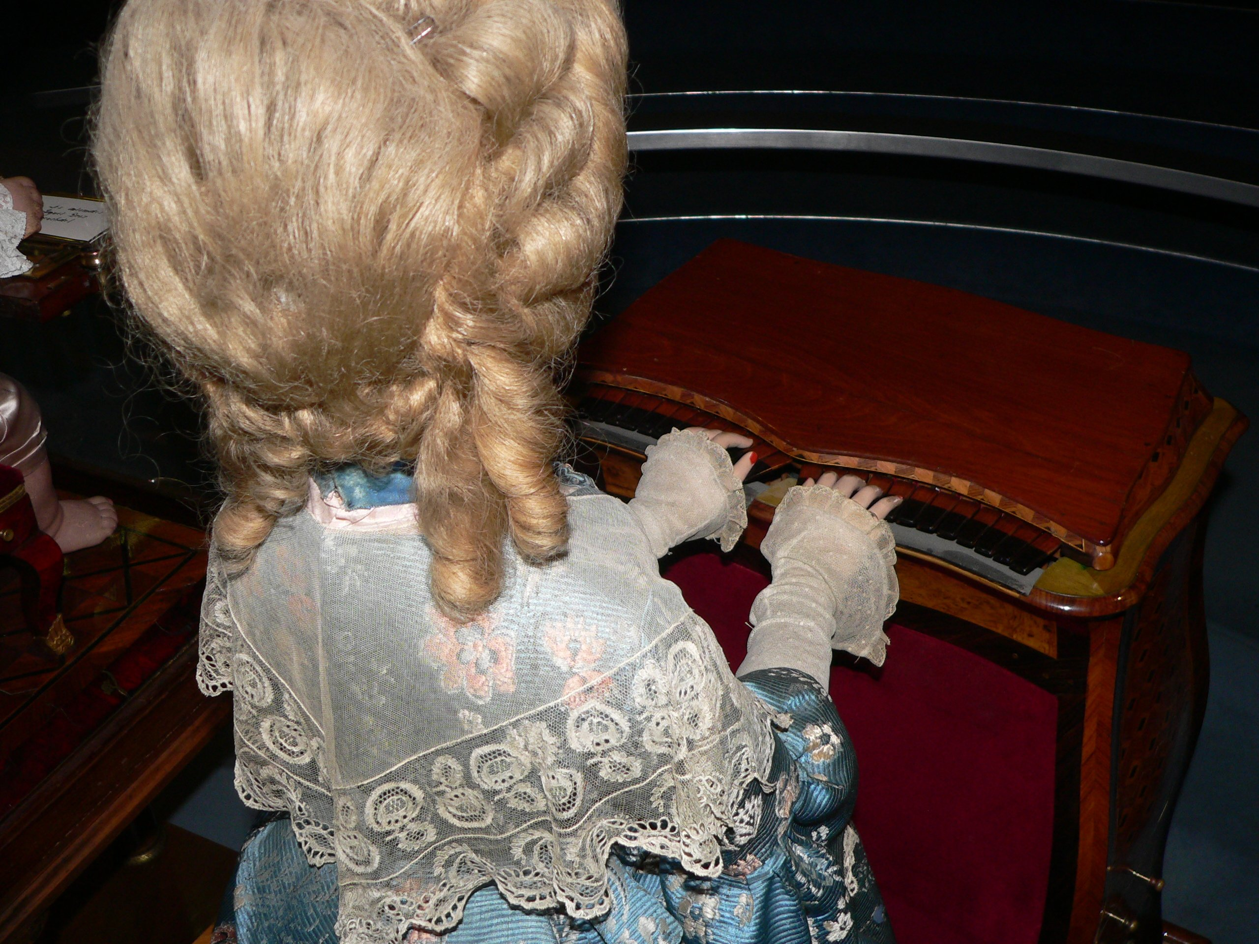 Jaquet-Droz automata, mus�e d'Art et d'Histoire de Neuch�tel